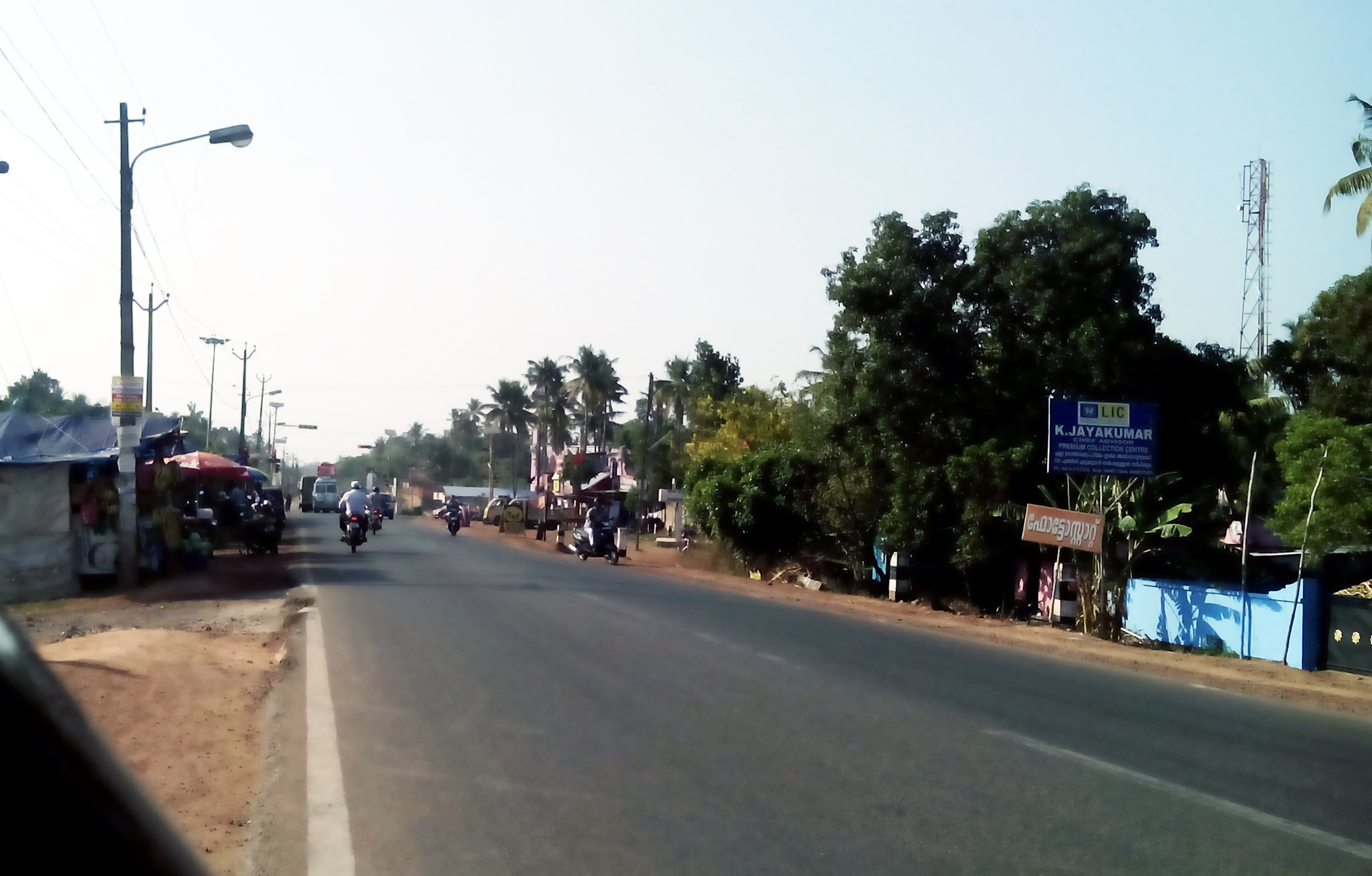 The 14 kilometer Kollam Bypass is still existing as an incomplete project, which bypasses the Kollam City stretch of National Highway-66(Old NH-47).